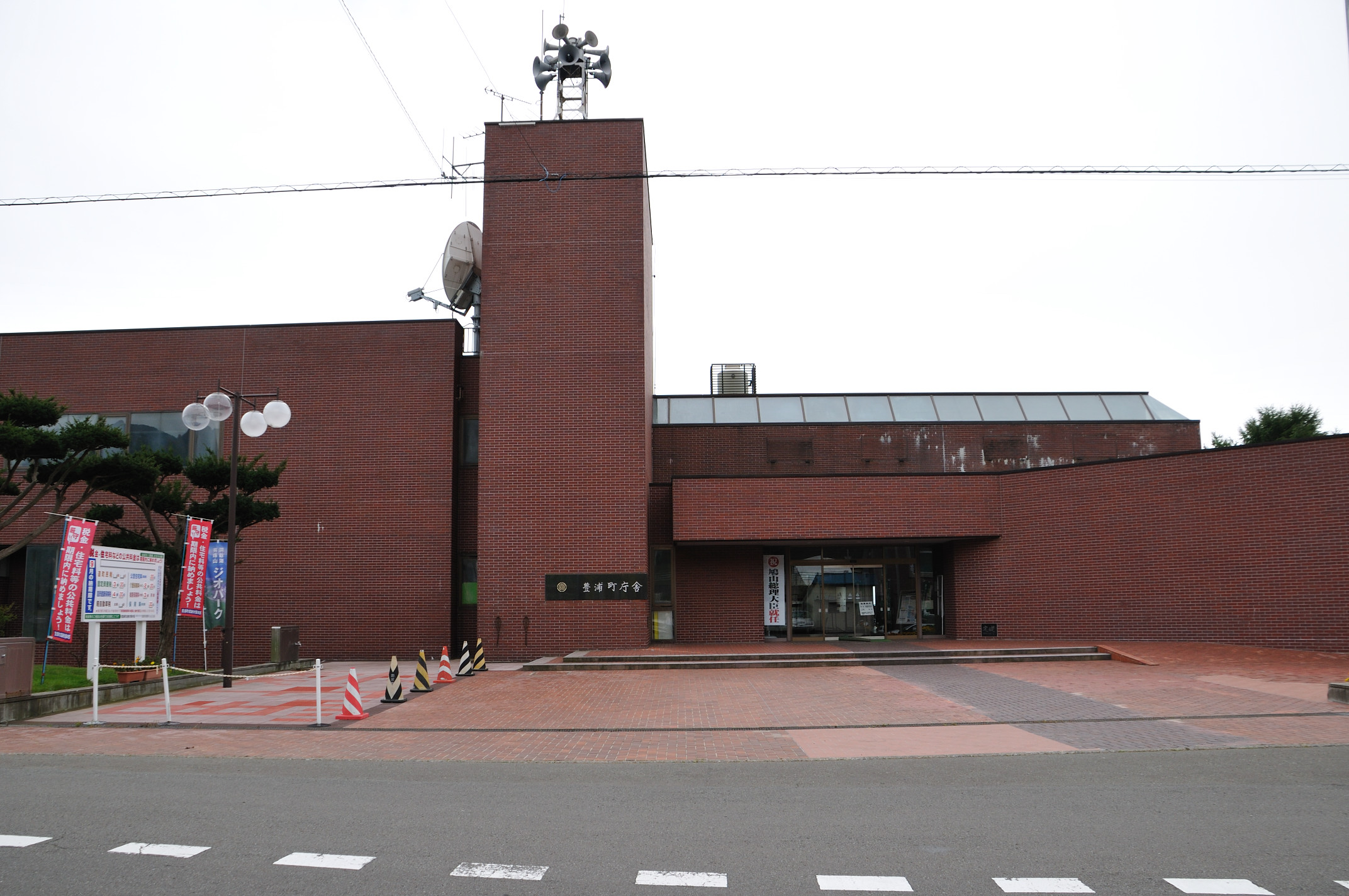 Toyoura town hall, Hokkaido, Japan